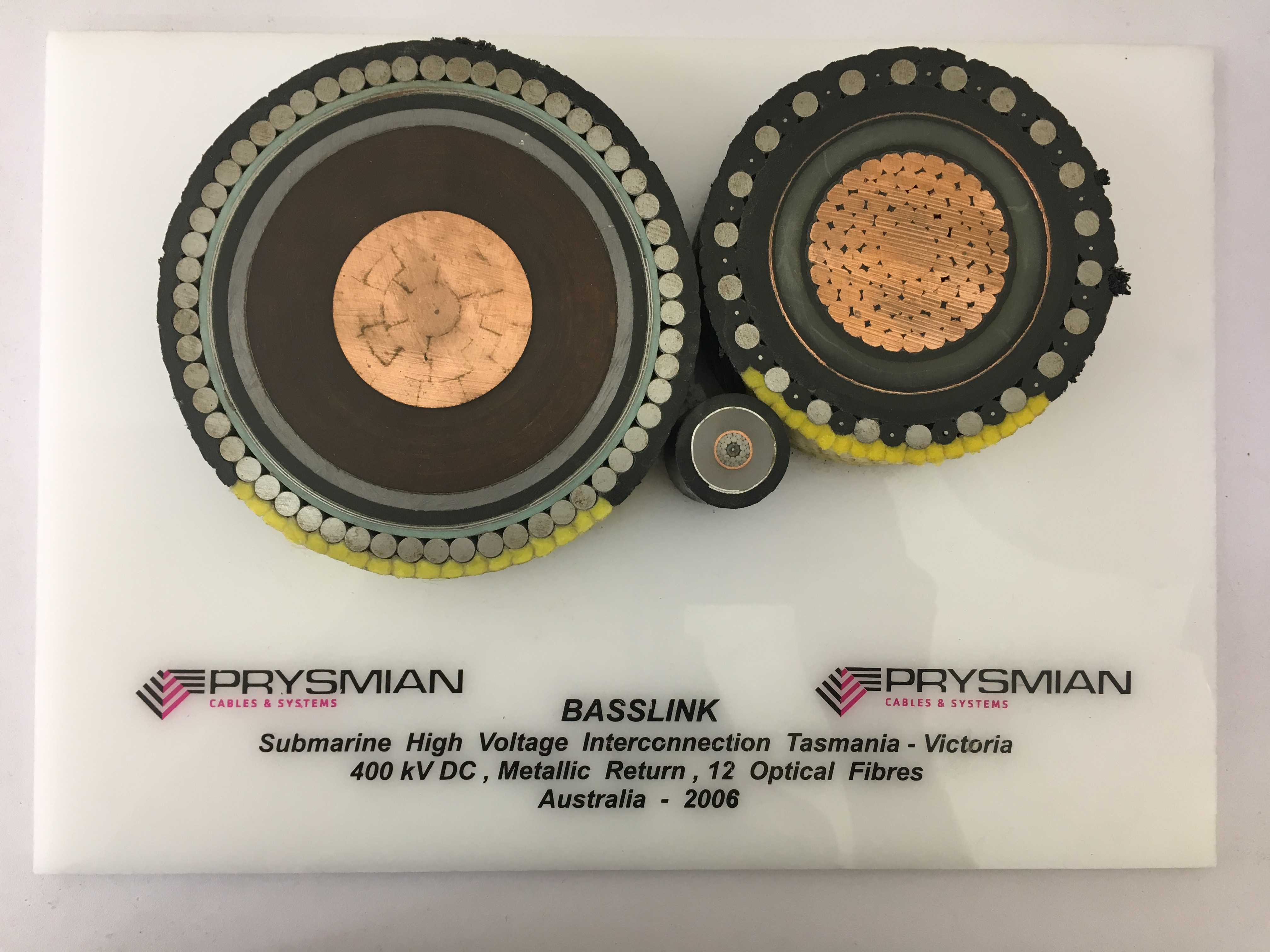 Basslink: Cross section of the Submarine High Voltage Interconnection Tasmania–Victoria 400 kV DC, Metallic Return and 12 Optical fibers; on display at George Town